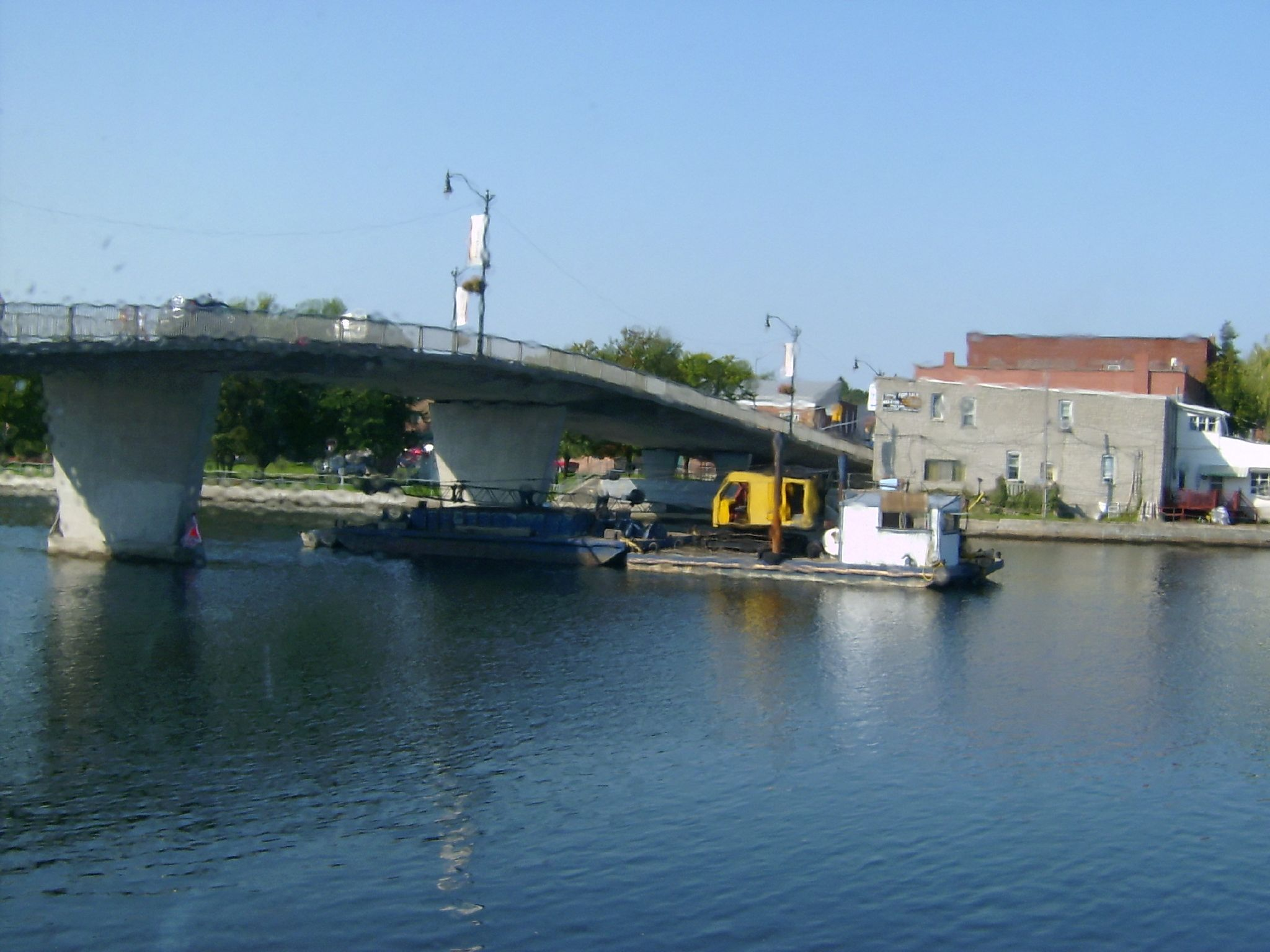 Work Barge Campbellford